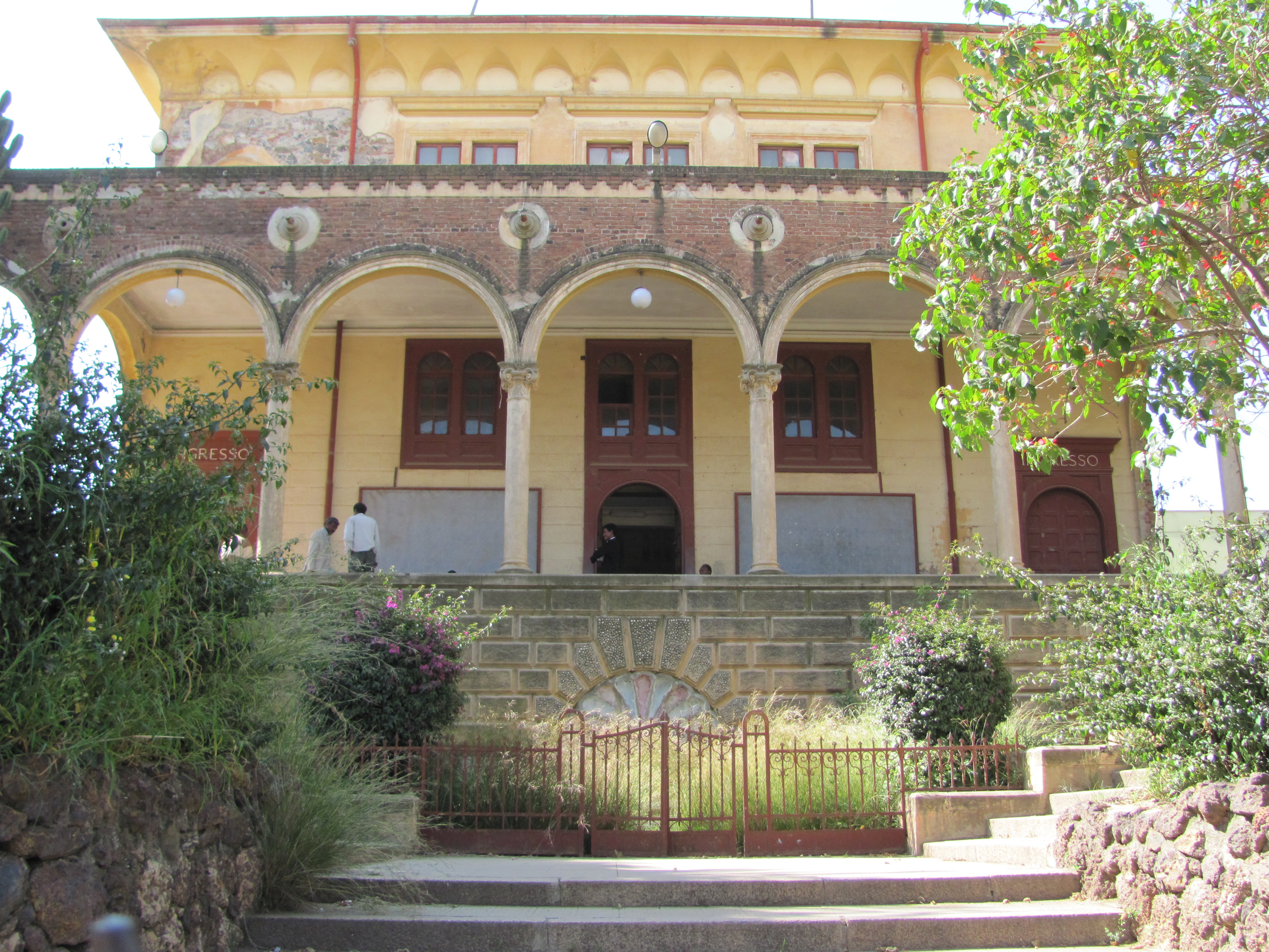 Asmara Operahouse